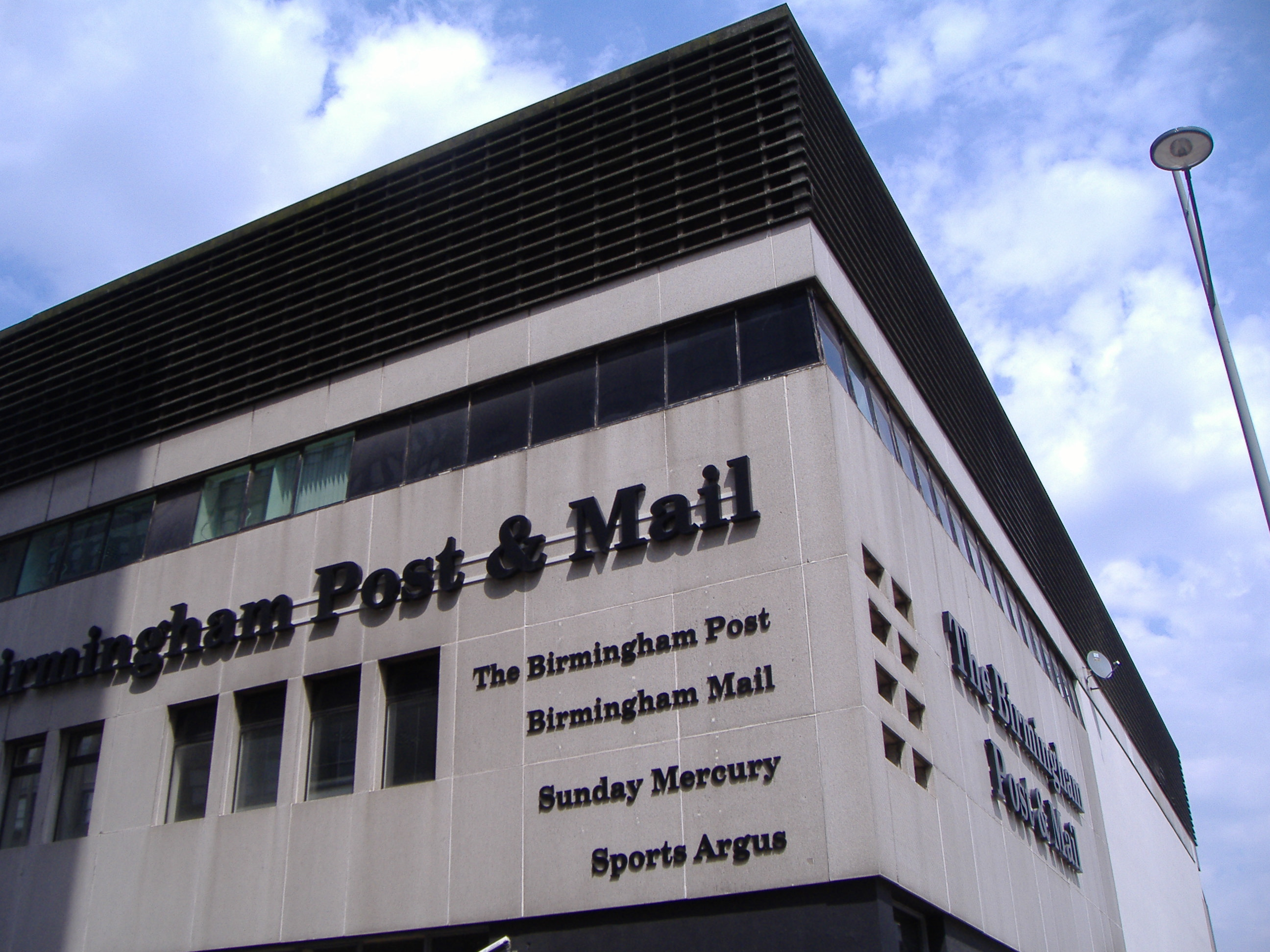 THIS IS THE CORNER OF THE REMAINING POST AND MAIL BUILDING IN BIRMINGHAM. England, UK